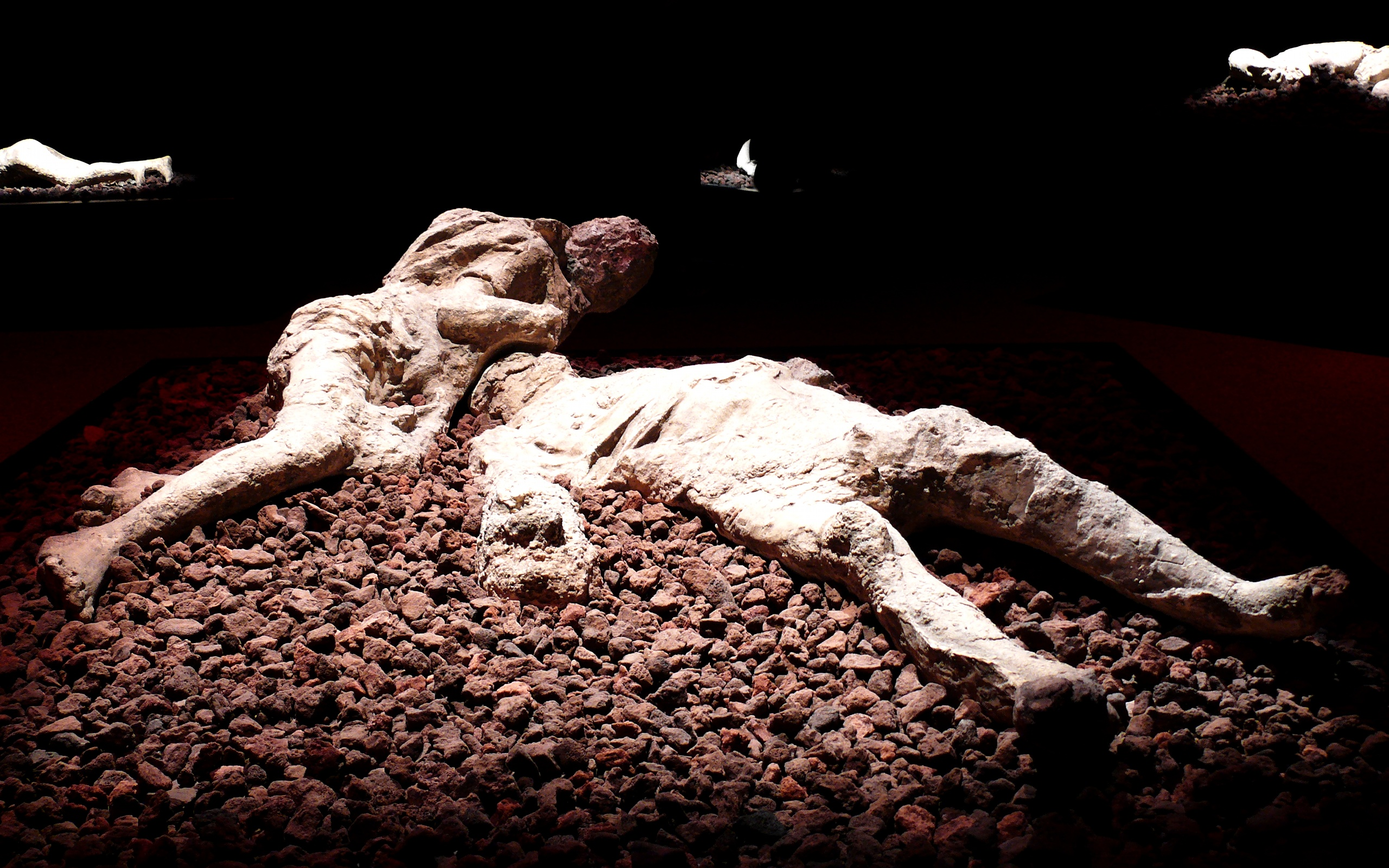 Cast of two corpses recovered from the ruins of Pompeii, on display as part of the A Day In Pompeii exhibit at the Discovery Place science museum. Photo taken with a Panasonic Lumix DMC-FZ50 in Charlotte, NC, USA. Cropping and post-processing performed with The GIMP.